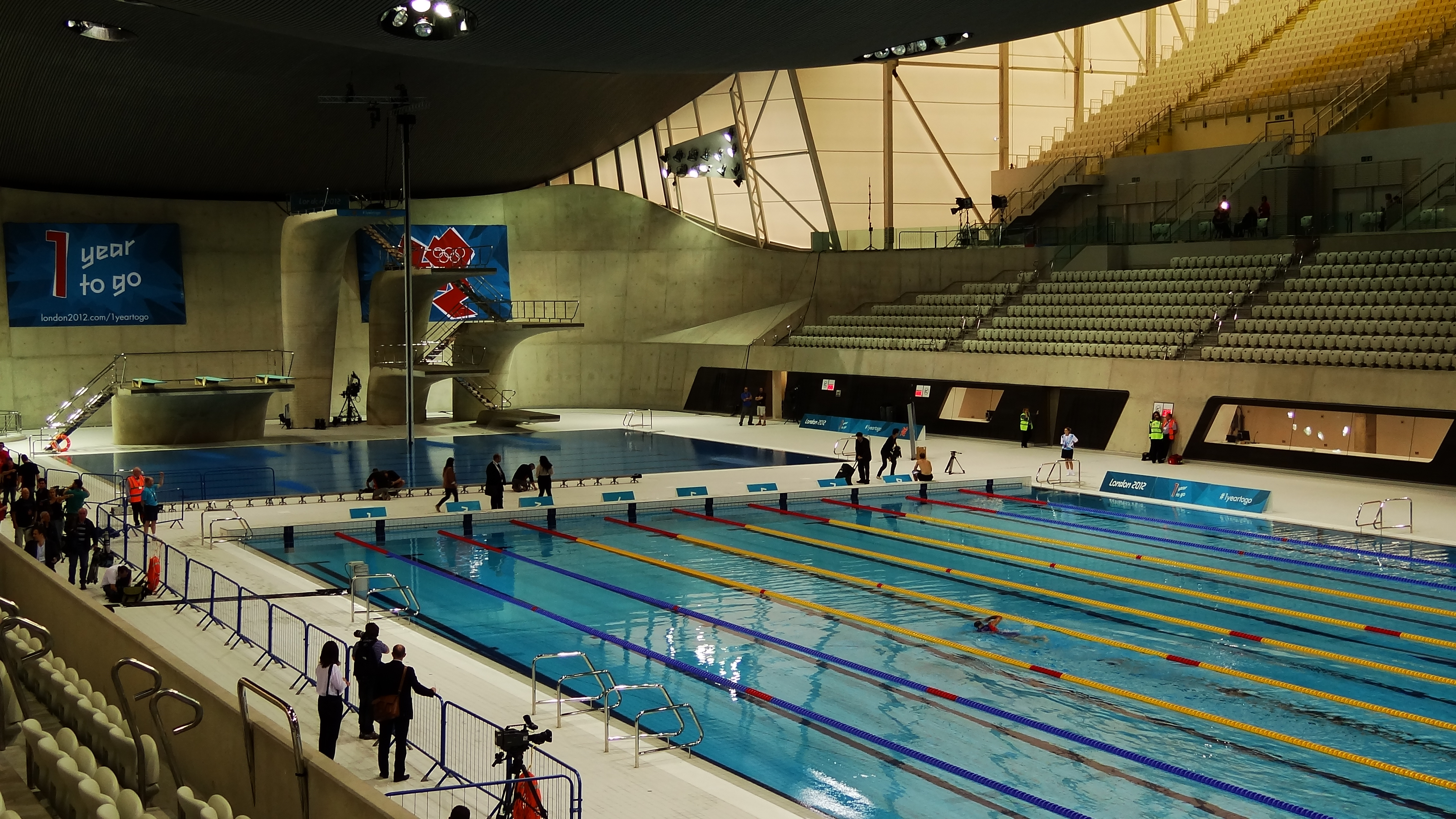 Interior view of the London Aquatics Centre, one of the venues of the 2012 Olympic Games.